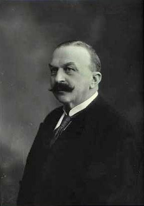 Christian Frederik Knuth (1862-1936), Danish Count, estate owner, and jurist